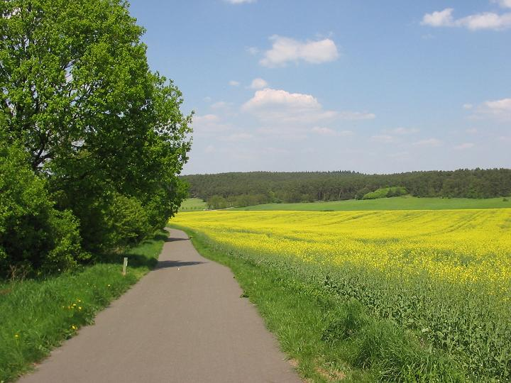 Part of Flaeming-Skate in Brandenburg, Germany. The Flaeming-Skate is a 190 kilometres long way especially for inline roller skating and bicycles in the district Teltow-Fläming. Here between the villages Ließen and Petkus, parts of the town Baruth (Mark), with view to the Golmberg (mountain).